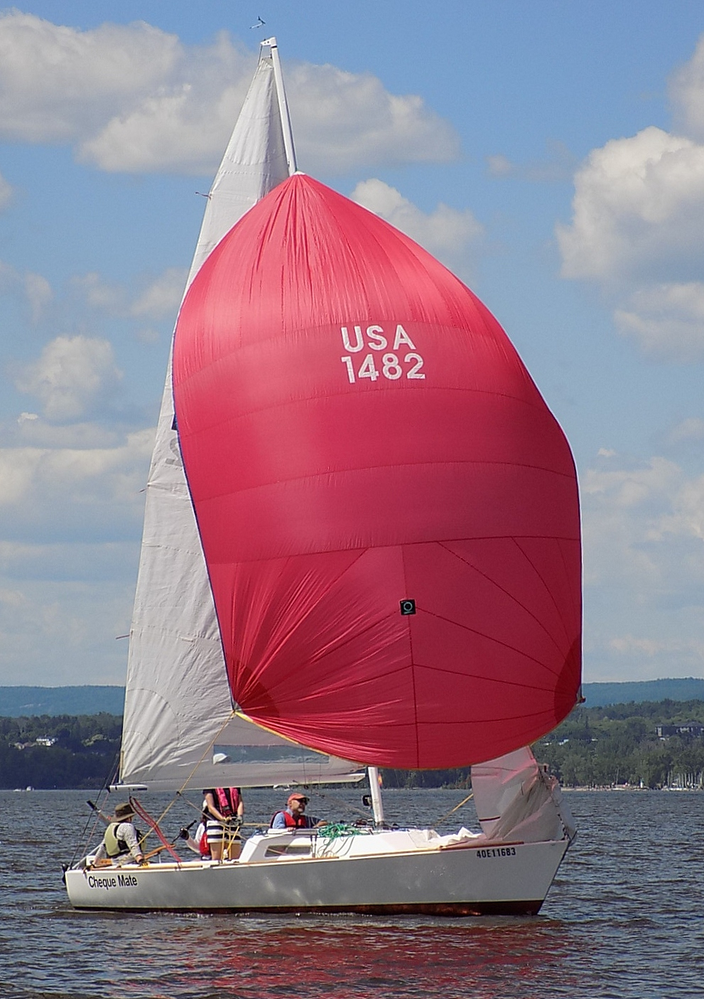 A J22 sailboat named Cheque Mate, flying its spinnaker